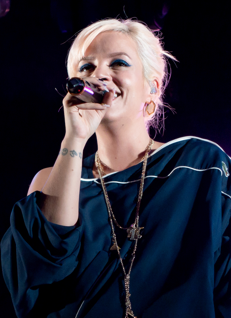 Lily Allen performing live at the El Rey Theatre in Los Angeles, California, on Wednesday, April 25, 2018.